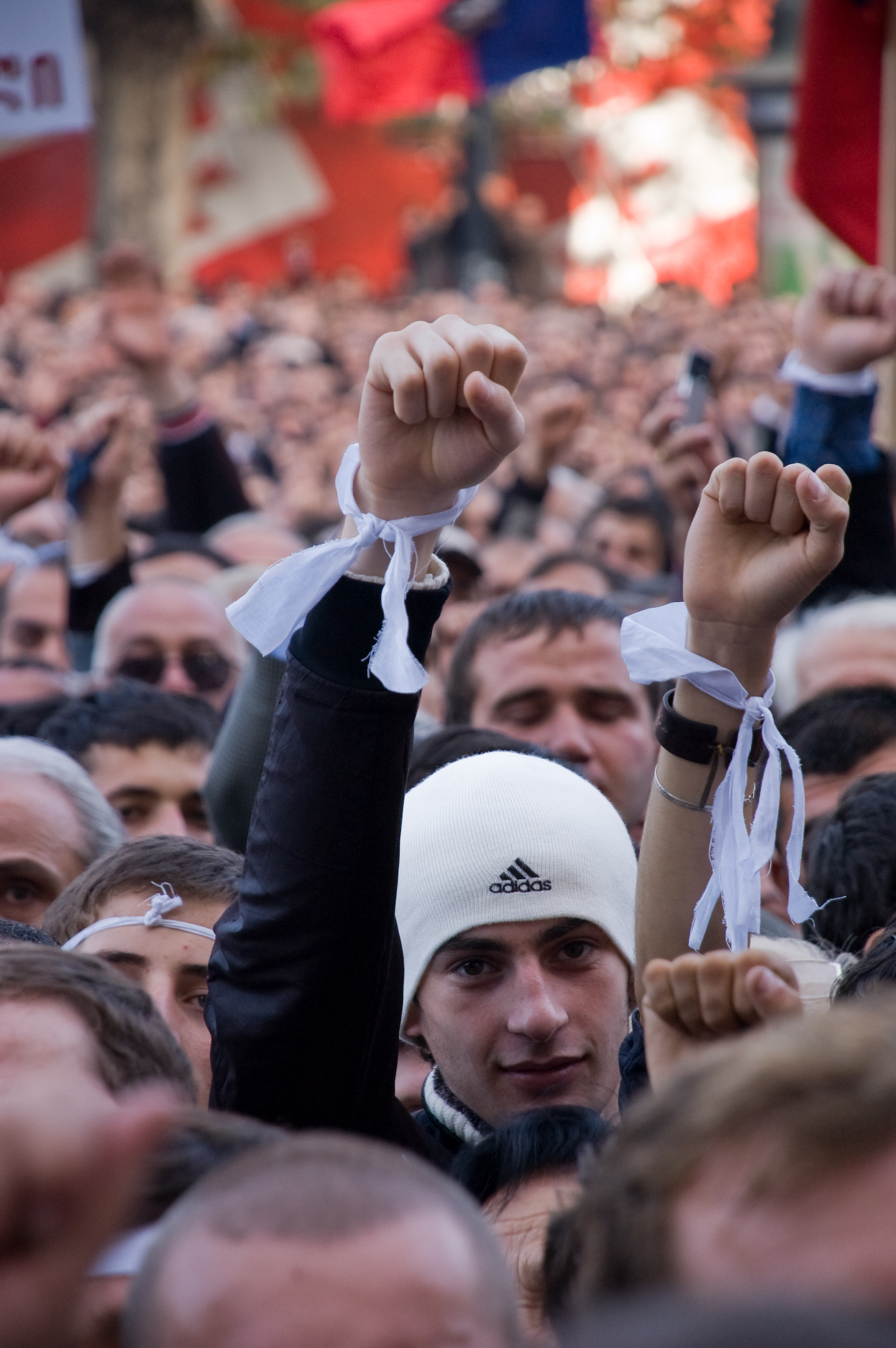 Mass protests in the center of Tbilisi, Georgia. White headgear and bracelets symbolize dissatisfaction.